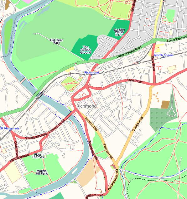 Map of Richmond town, London